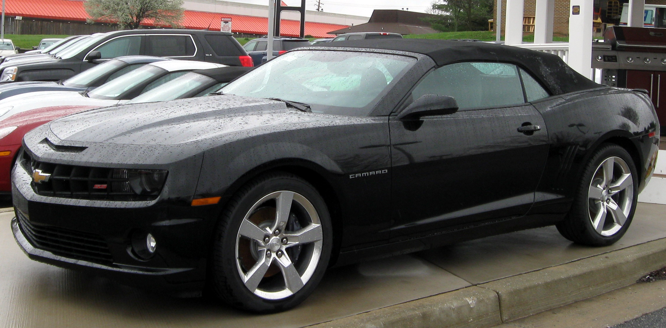 2011 Chevrolet Camaro SS convertible photographed in Clarksville, Maryland, USA.